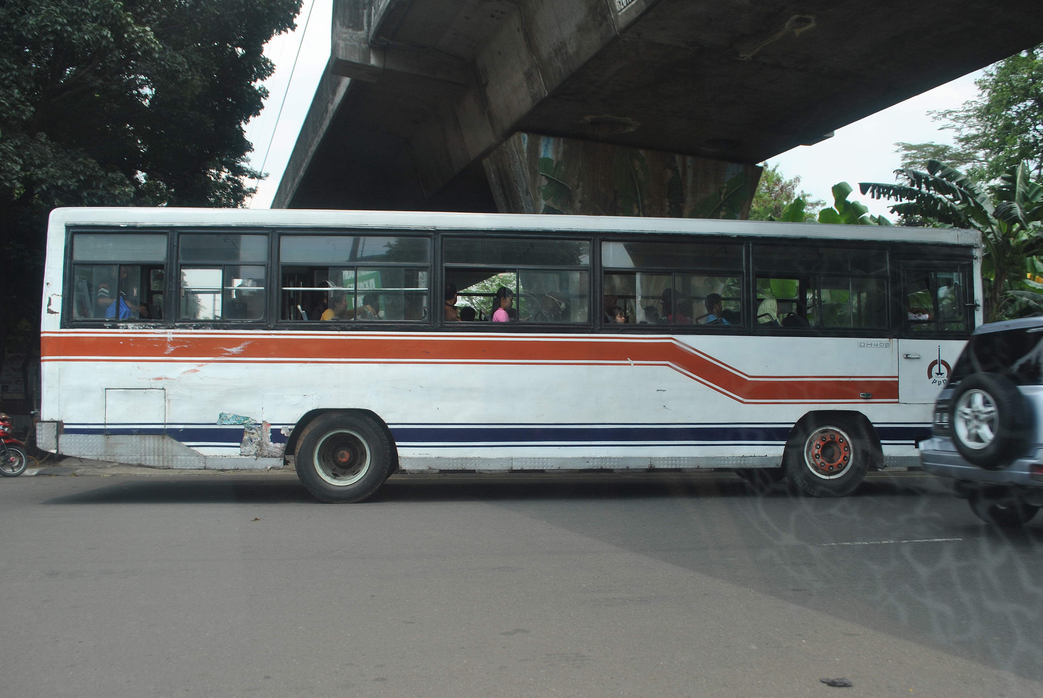 Mercedes OH408? Oh really, it's that old. Bis Mercedes tua di jalanan ibukota.